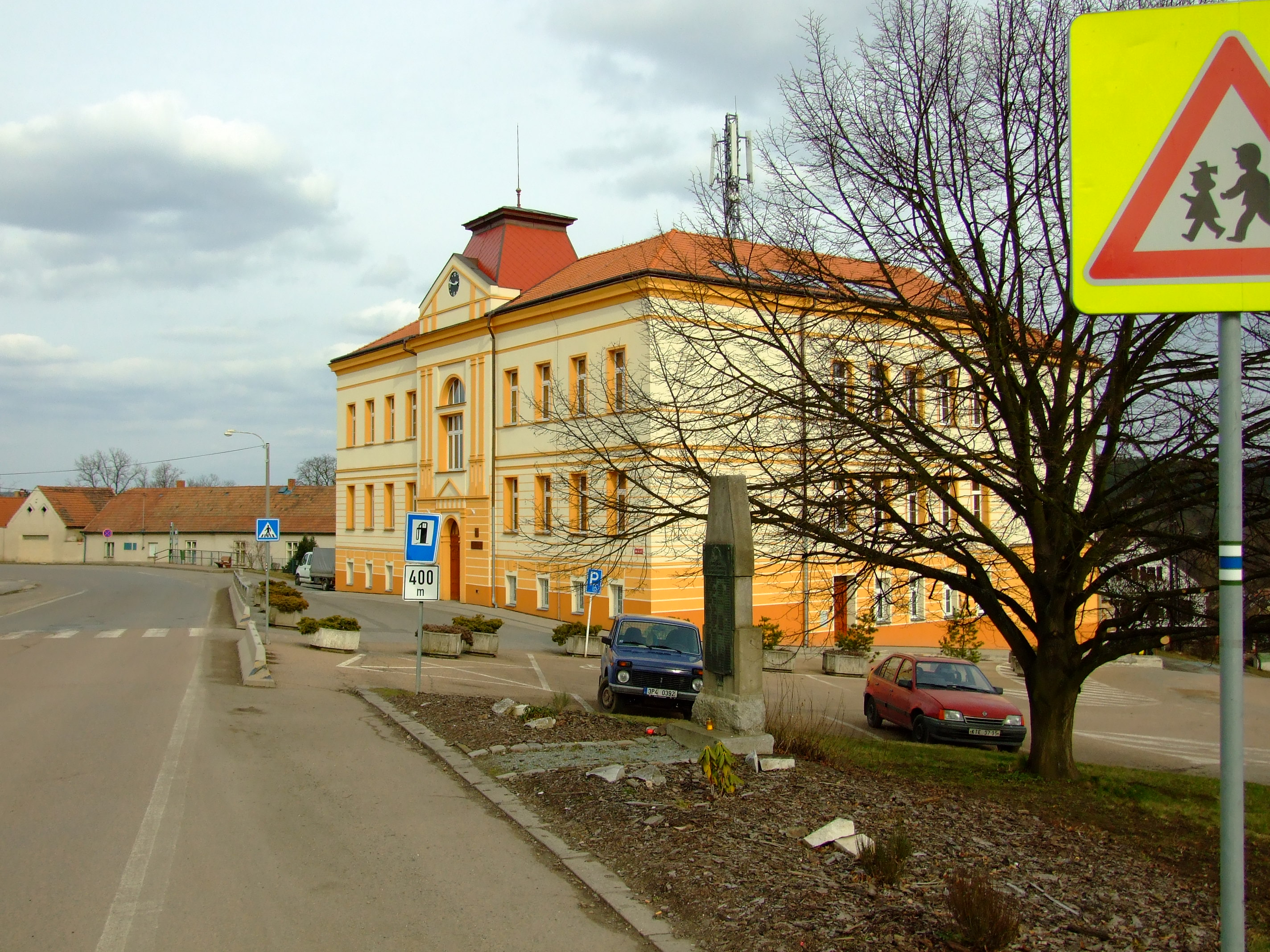 Elementary school in Chrást u Plnzě and surrounding nature in Plzeň region, CZhelp